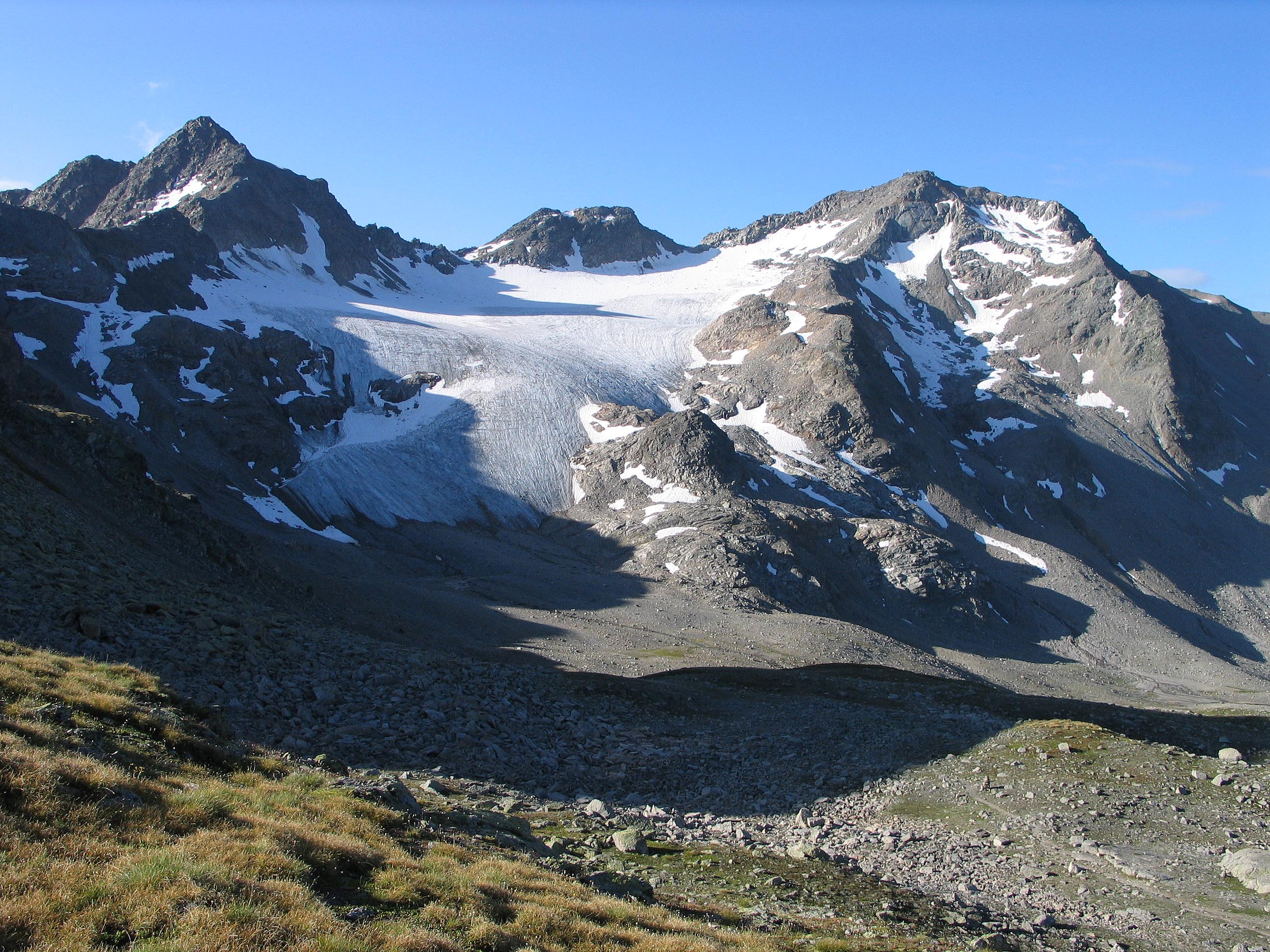 Piz Sesvenna